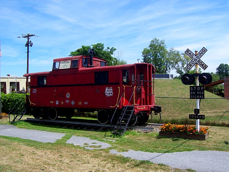 Photographed by Daniel Case on 2005-08-06 along NY 208